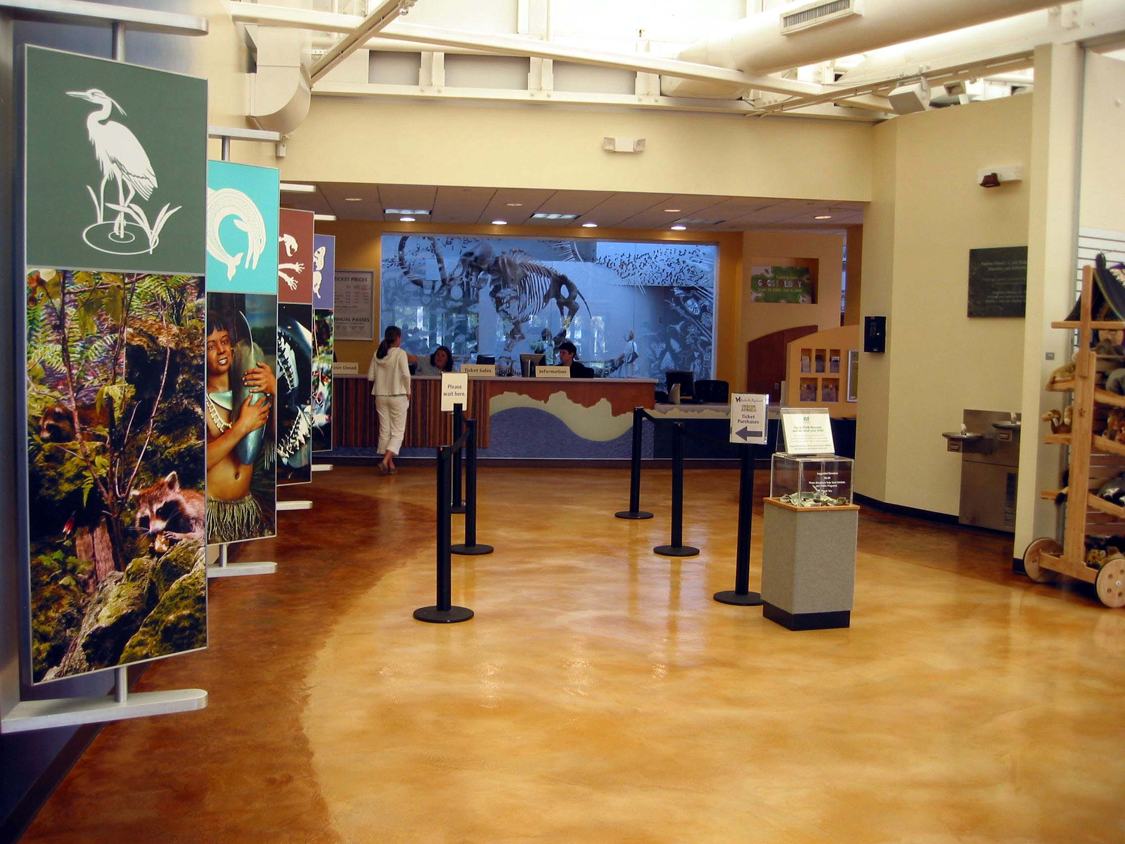 The front hallway entrance to the Florida Museum of Natural History, it shows the side of the collector's shop and the front desk.